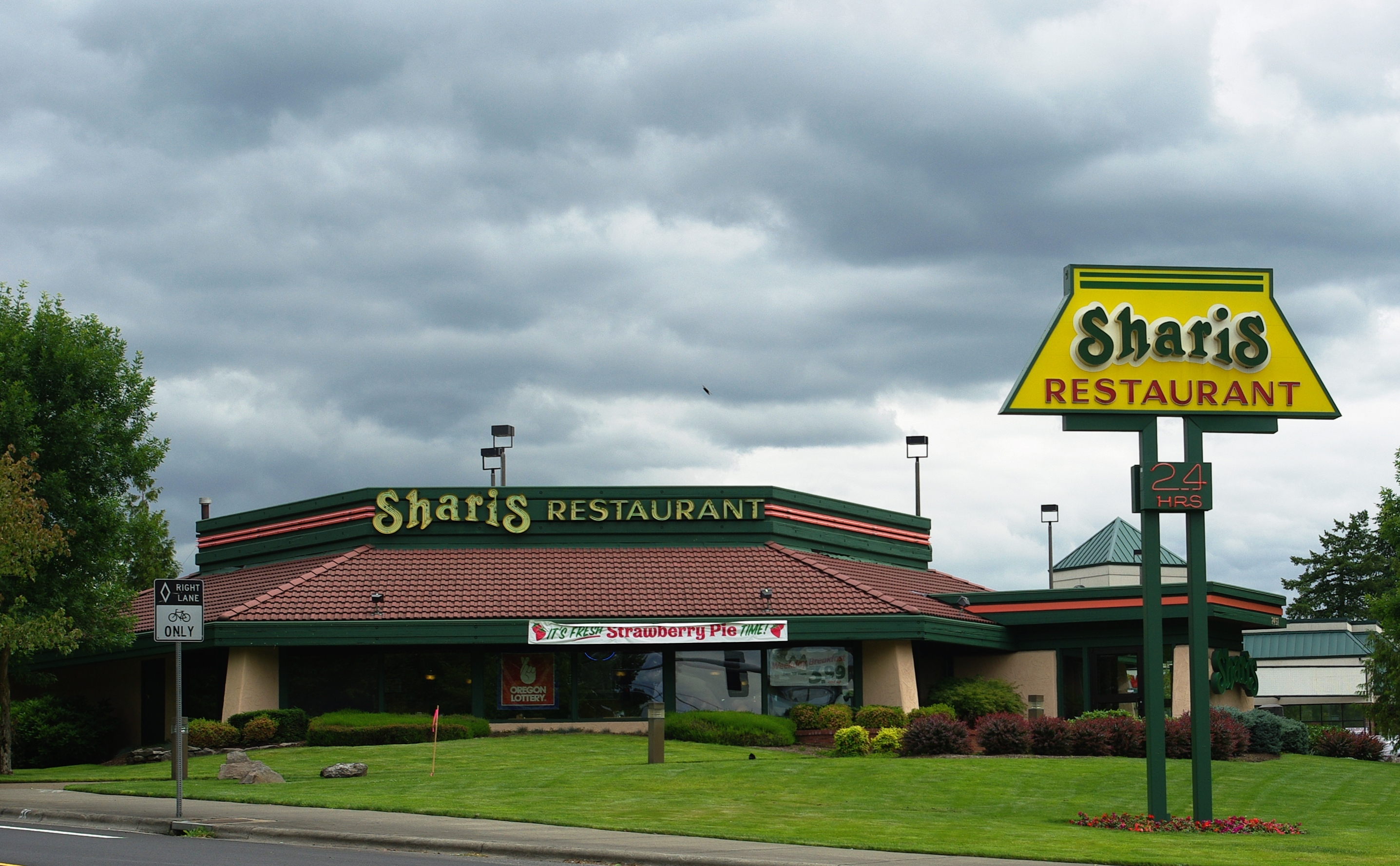 Sharis in Garden Home near Beaverton, Oregon